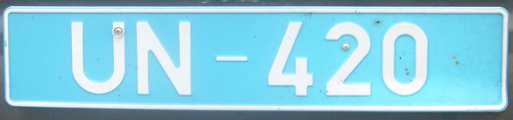 Licence plate of the United Nations in Cyprus